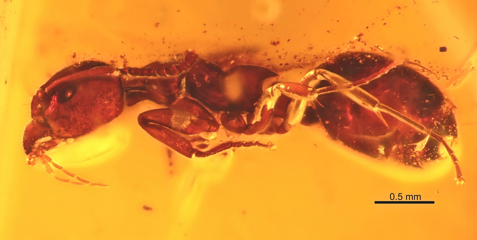 Profile view of a Dolichoderus tertiarius worker. Middle Eocene; Baltic amber, Samland Peninsula, Kalingrad, Russia Natural History Museum, London, United Kingdom. Specimen BMNHP17799